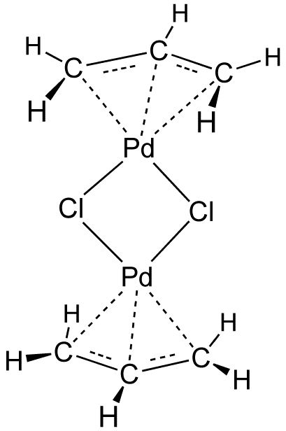 structure of allyl palladium dimer